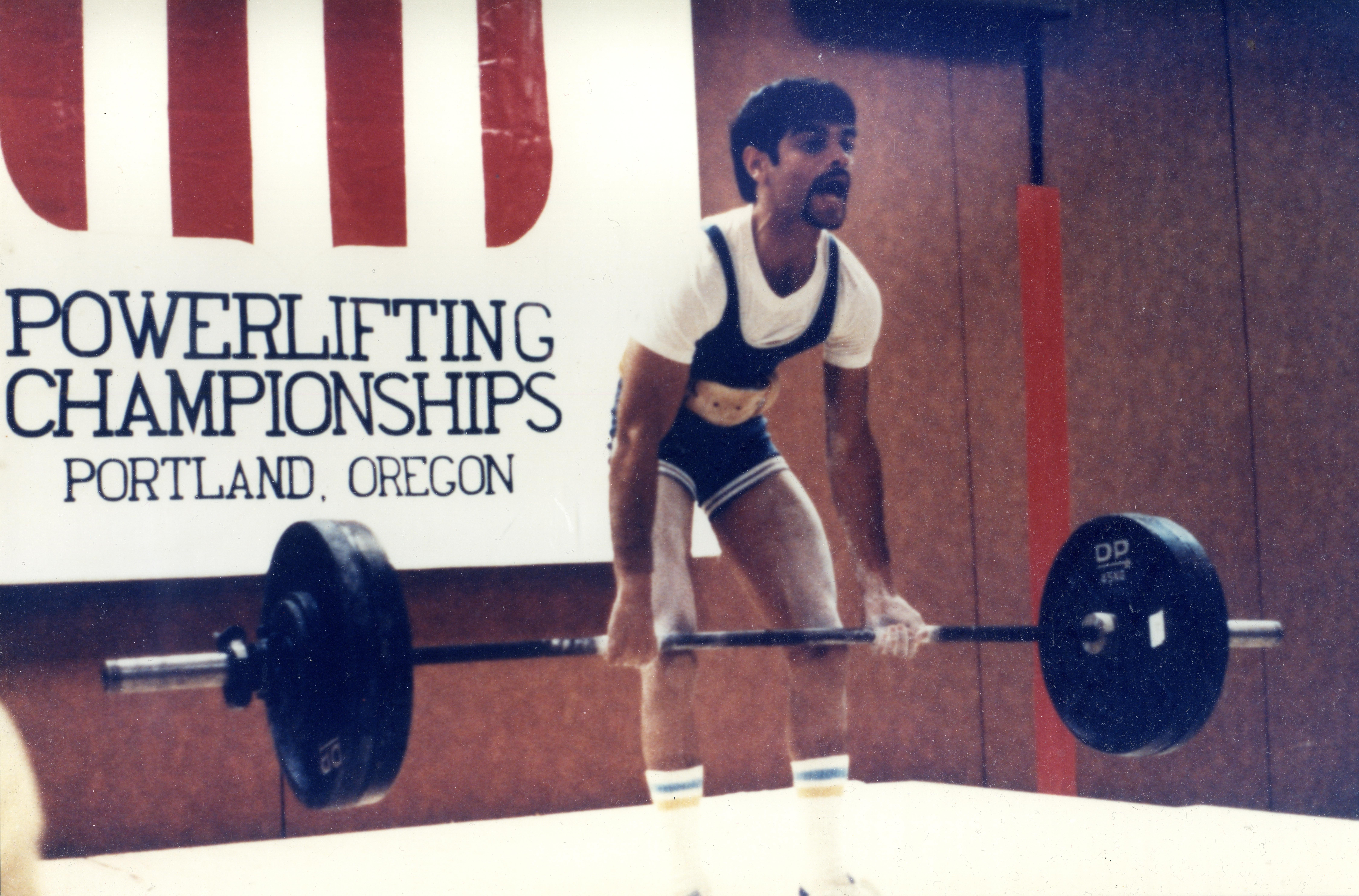 1982 US National Powerlifting Championships (DEADLIFT 418 lbs)